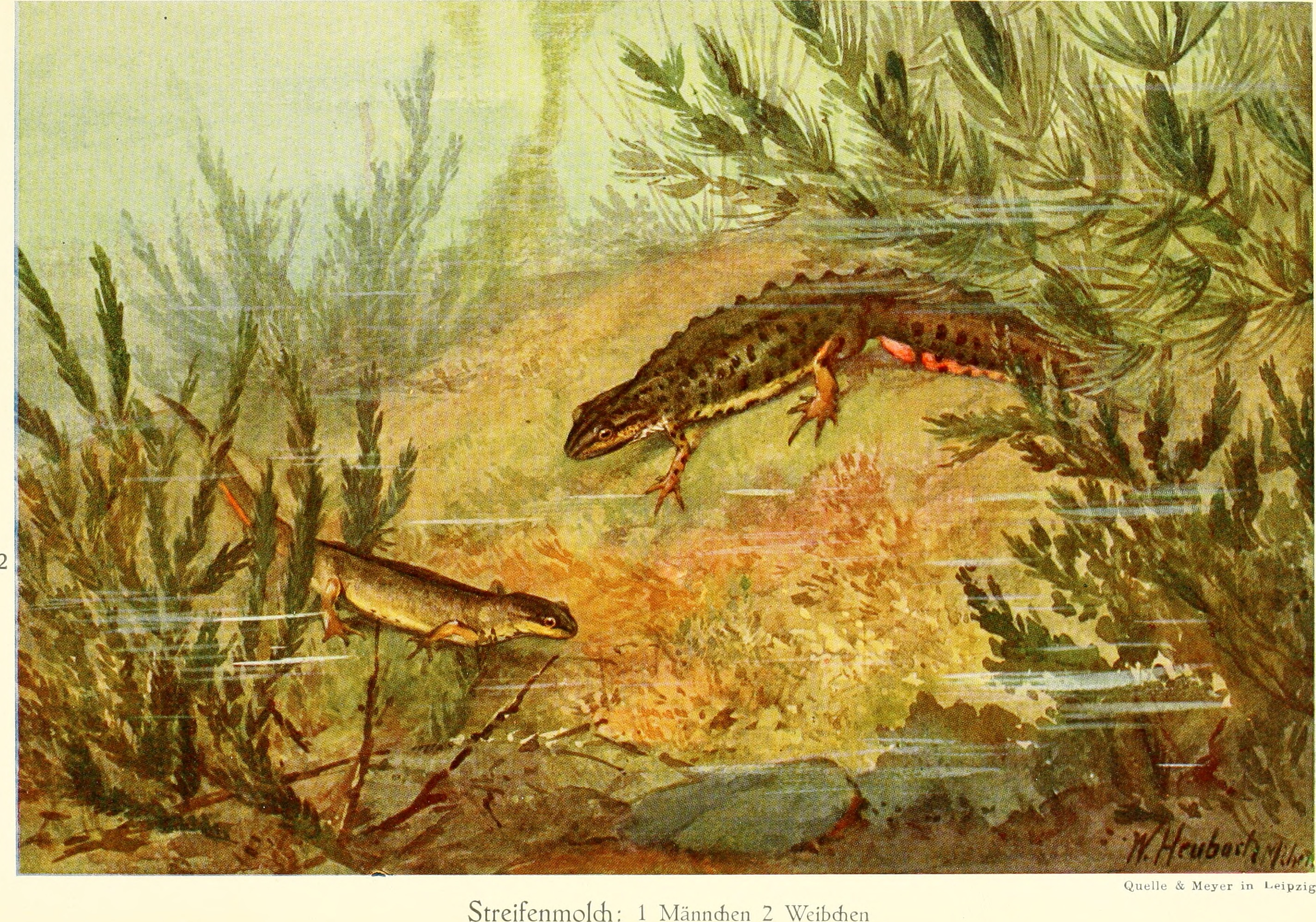 Richard Sternfeld Die Reptilien und Amphibien mitteleuropas Leipzig, Quelle & Meyer, 1912. In German 80 pages illustrated with 30 coloured plates. Lissotriton vulgaris (Linnaeus, 1758) Title: Die Reptilien und Amphibien mitteleuropas Year: 1912 (1910s) Authors: Sternfeld, Richard Subjects: Reptiles; Amphibians Publisher: Leipzig, Quelle & Meyer Text Appearing Before Image: ' Text Appearing After Image: '